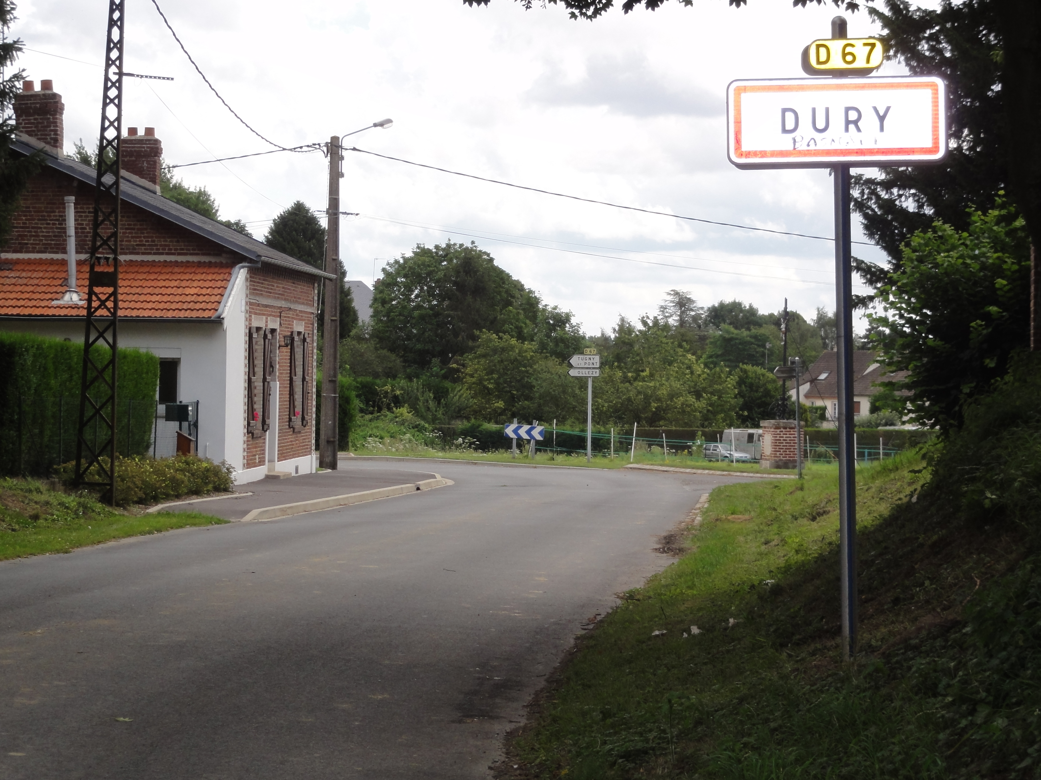 Dury (Aisne) city limit sign